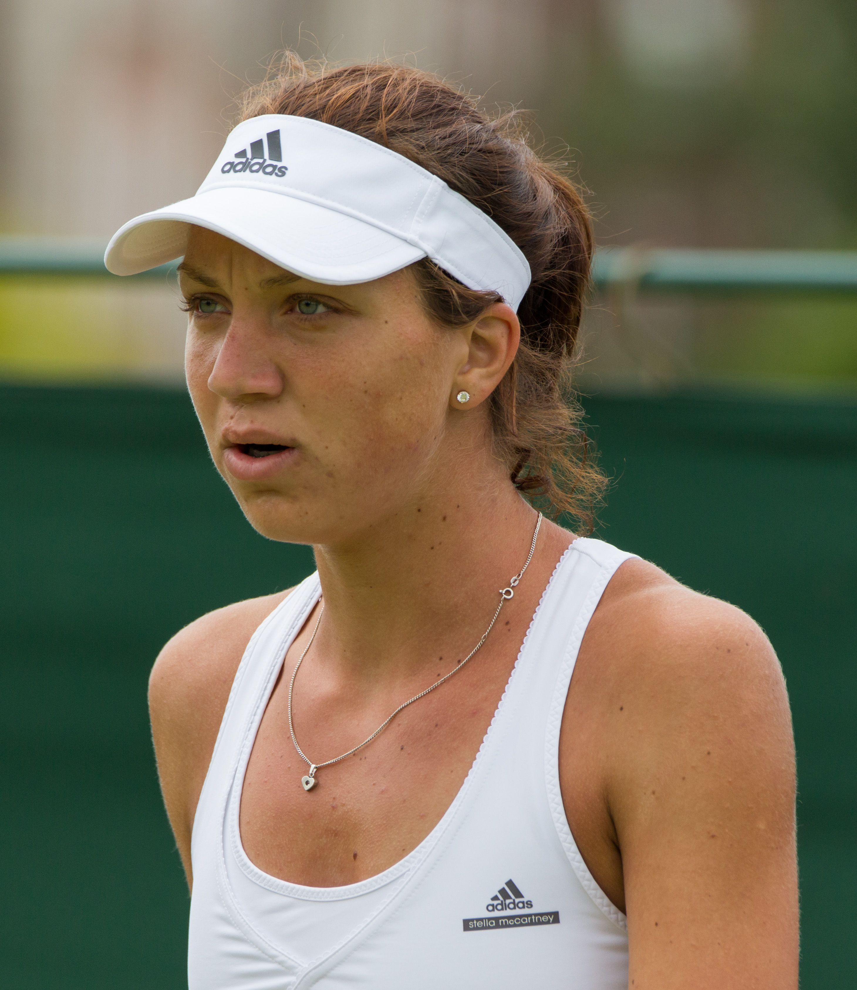 Patricia Maria Țig competing in the first round of the 2015 Wimbledon Qualifying Tournament at the Bank of England Sports Grounds in Roehampton, England. The winners of three rounds of competition qualify for the main draw of Wimbledon the following week.